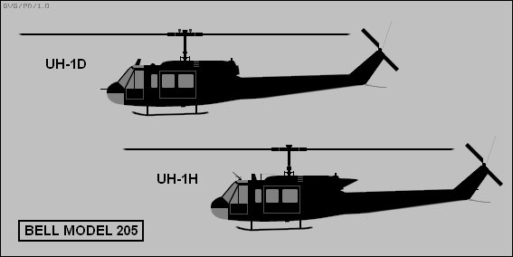 UH-1D and UH-1H models of the UH-1 Iroquois helicopter